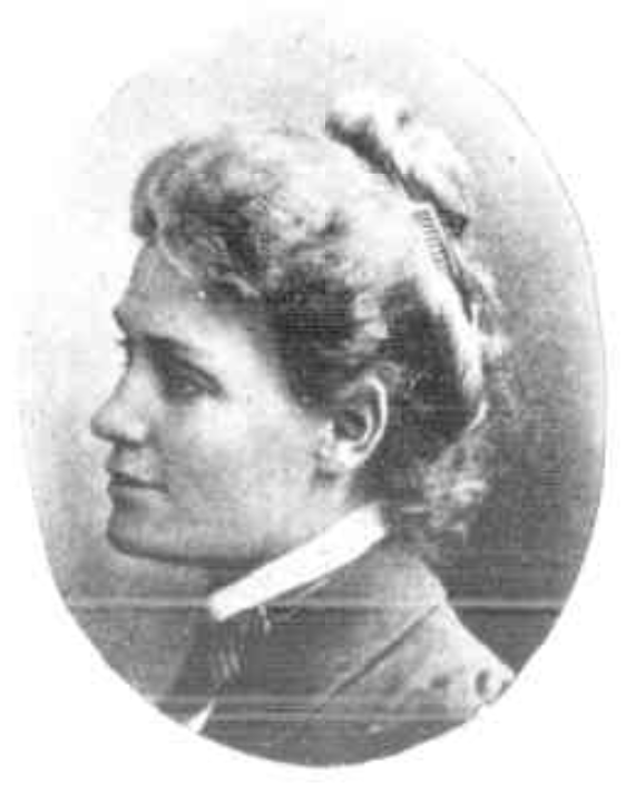 Jeanne Forster Young (1866-1955) women's rights and political activist; c.1902